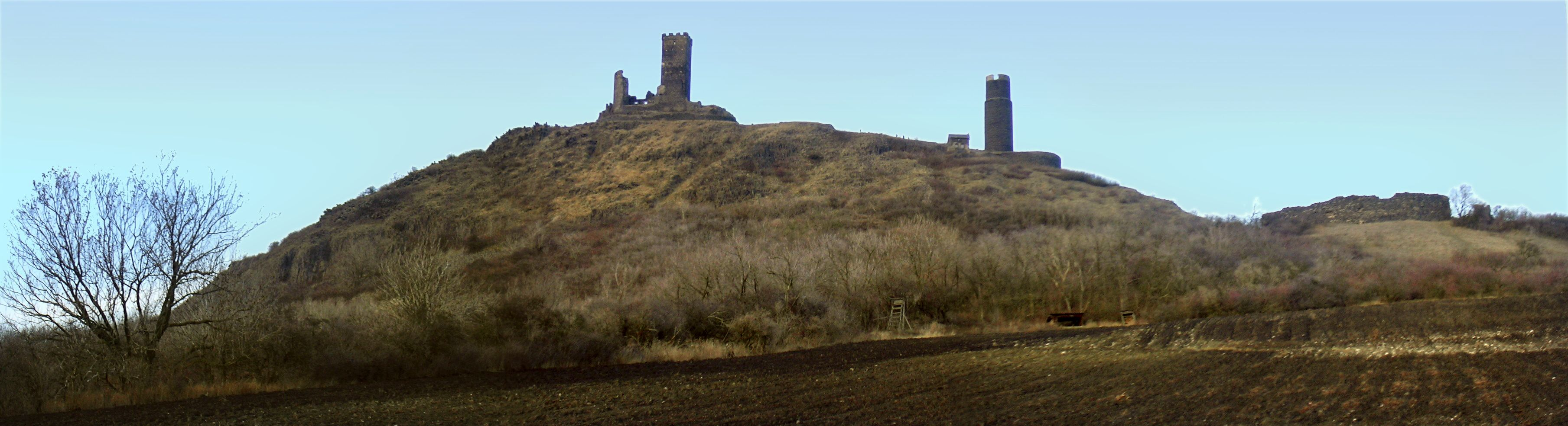 Hazmburk from south